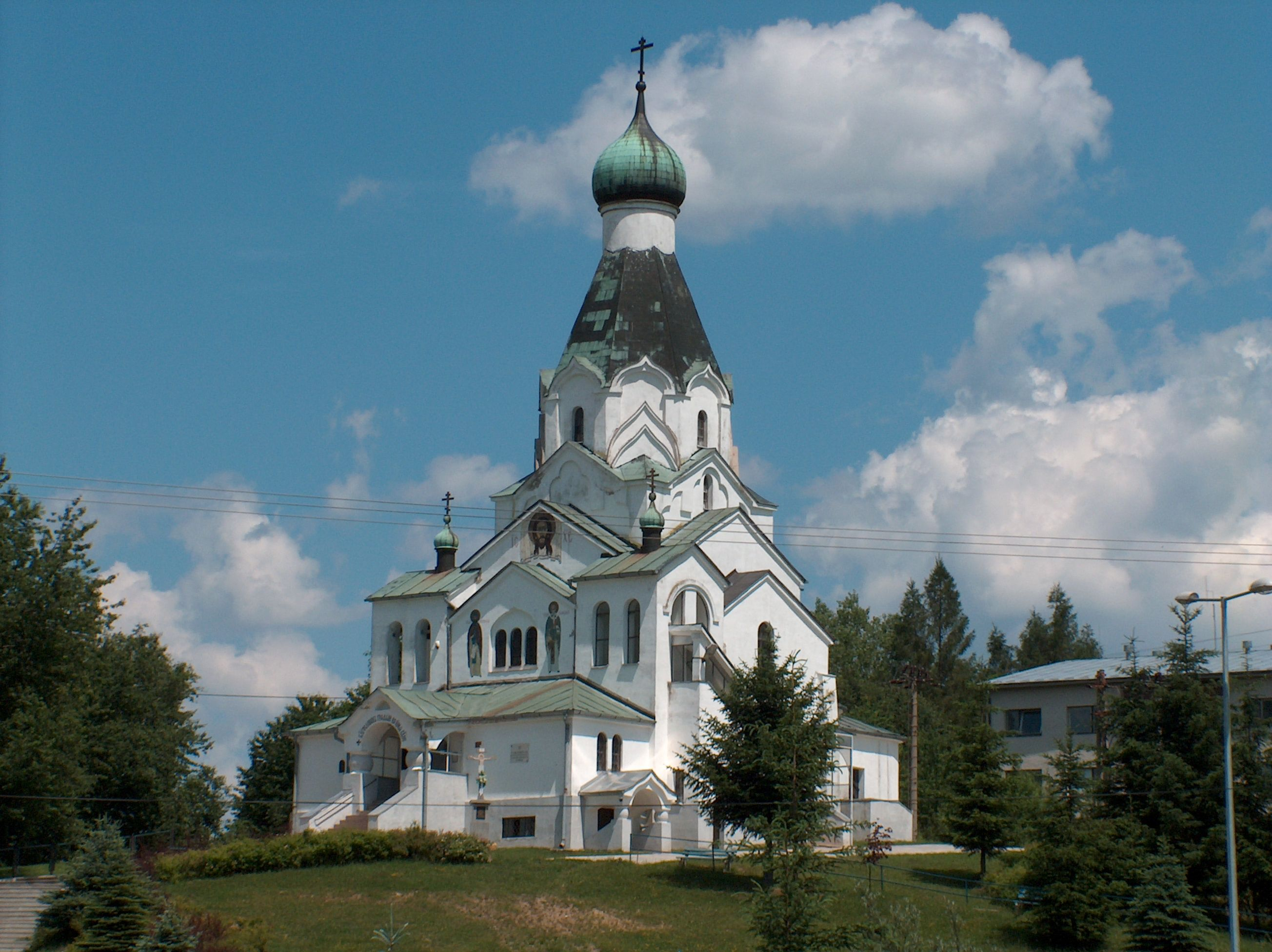 Orthodox Church of Holy Spirit in Slovakia Medzilaborce